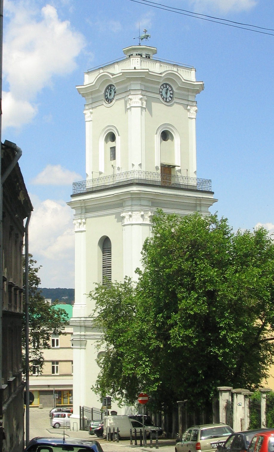 Clock tower in Przemyśl, Poland.